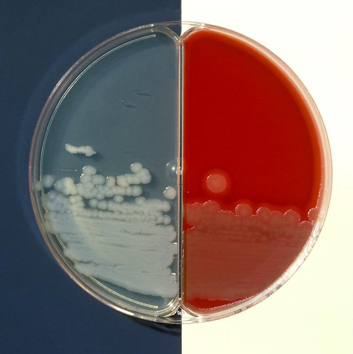 Blood agar and bicarbonate agar plate cultures of Bacillus cereus. Negative encapsulation test. Rough colonies of Bacillus cereus on both blood and bicarbonate agars.